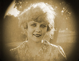 Winifred Westover in the film Love (1919).